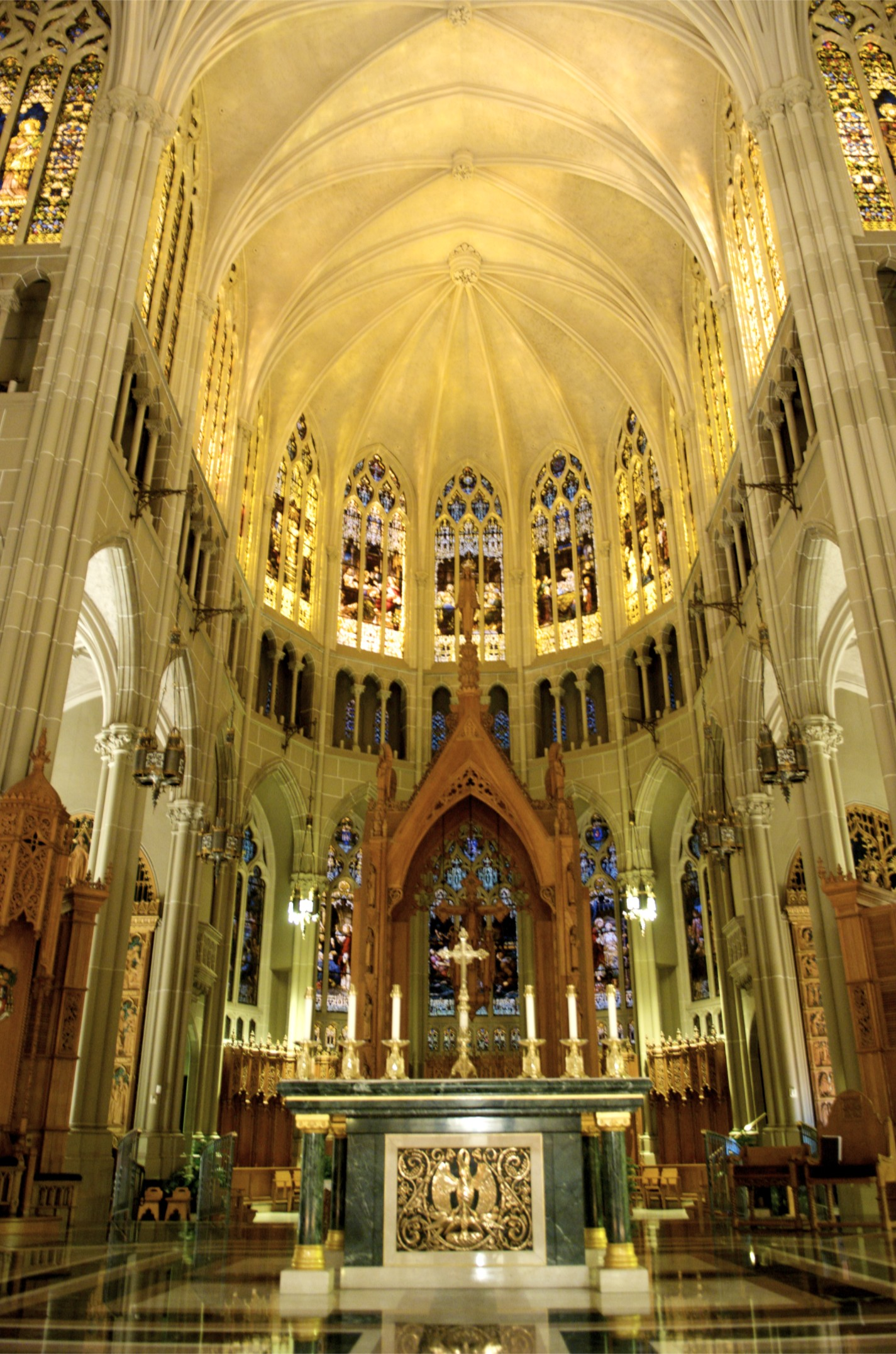 At the Cathedral's architectural center point stands the High Altar. Its Verde marble surface suggests ancient sacrificial stones.